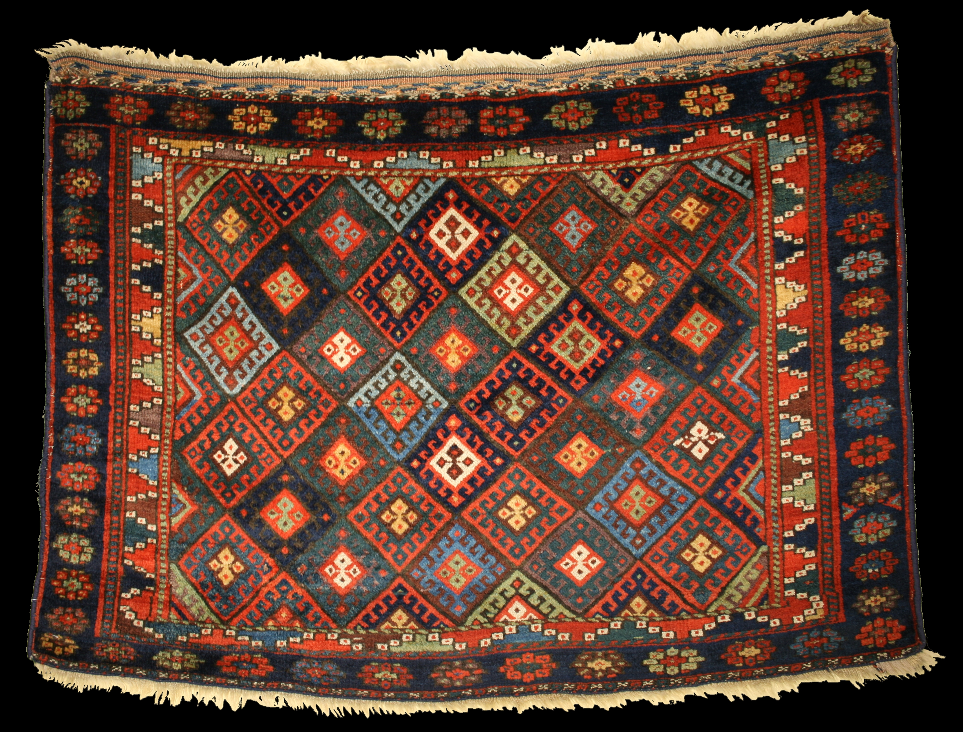 Origin: Persian Jaf Kurdish Bag Size: 2.9 x 3.11 Date: ca. Mid 19th c The Jafs are a sub-tribe of the Kurdish and produce wonderfully distinctive diamond lattice pattern motifs on their rugs and bags. This bag-face has multiple rows of diamond motifs, each containing latch-hooks surrounding smaller crossed diamonds. The outer border is a single row of flowers. The whole piece is more colorful than most and is woven with exceptional wool.